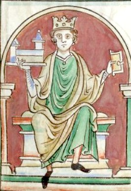 Henry I of England